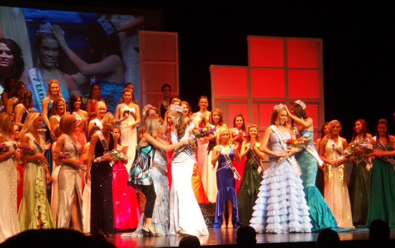 Crowning moment of the Miss Kansas USA and Miss Kansas Teen USA pageant, held at the The Lied Center on the University of Kansas campus in Lawrence, Kansas. On the left, Michelle Gillespie is crowned Miss Kansas USA 2008 by Cara Gorges, and at right Jessie Colonna is crowned Miss Kansas Teen USA by Jaymie Stokes.